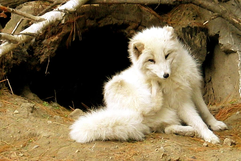 Licence CC Author Davebluedevil